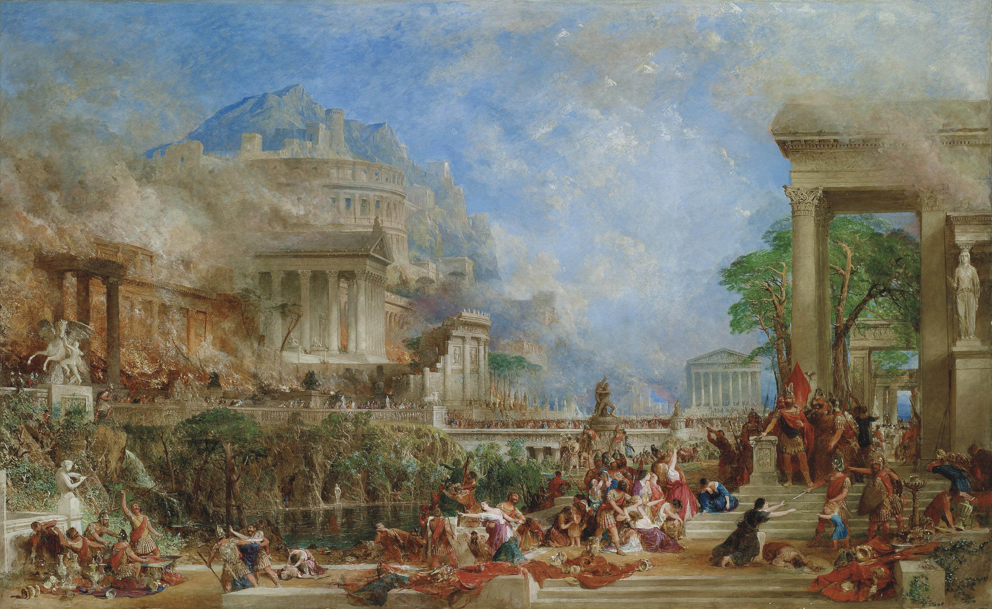 The Sack of Corinth by Thomas Allom, 1870, Signed and dated 'T.A. Allom/1870' (lower right) oil on canvas 58¼ x 94¼ in. (148 x 239.4 cm.) auctioned by Christie's